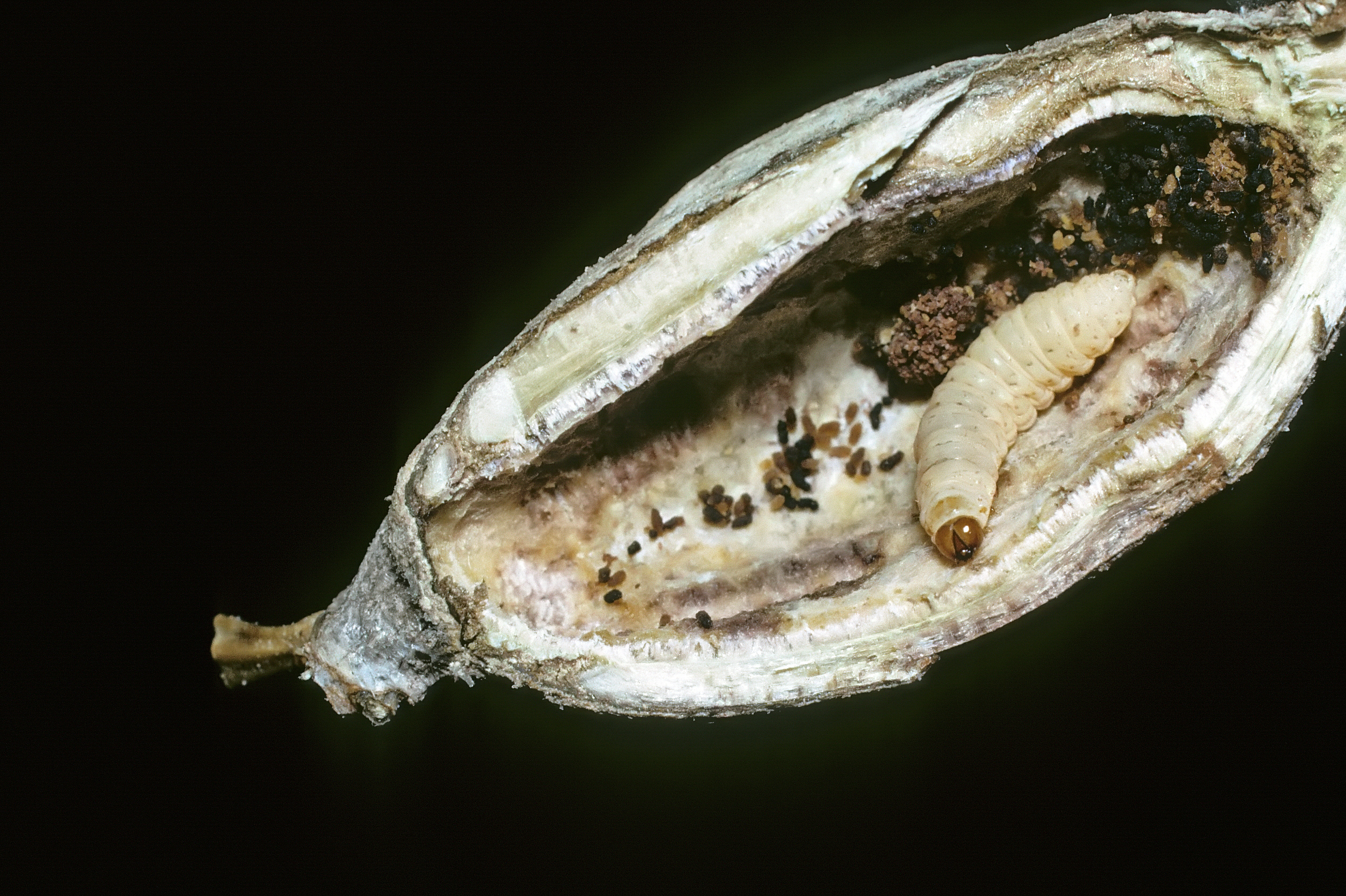 Alucita sp. moth Family: Alucitidae